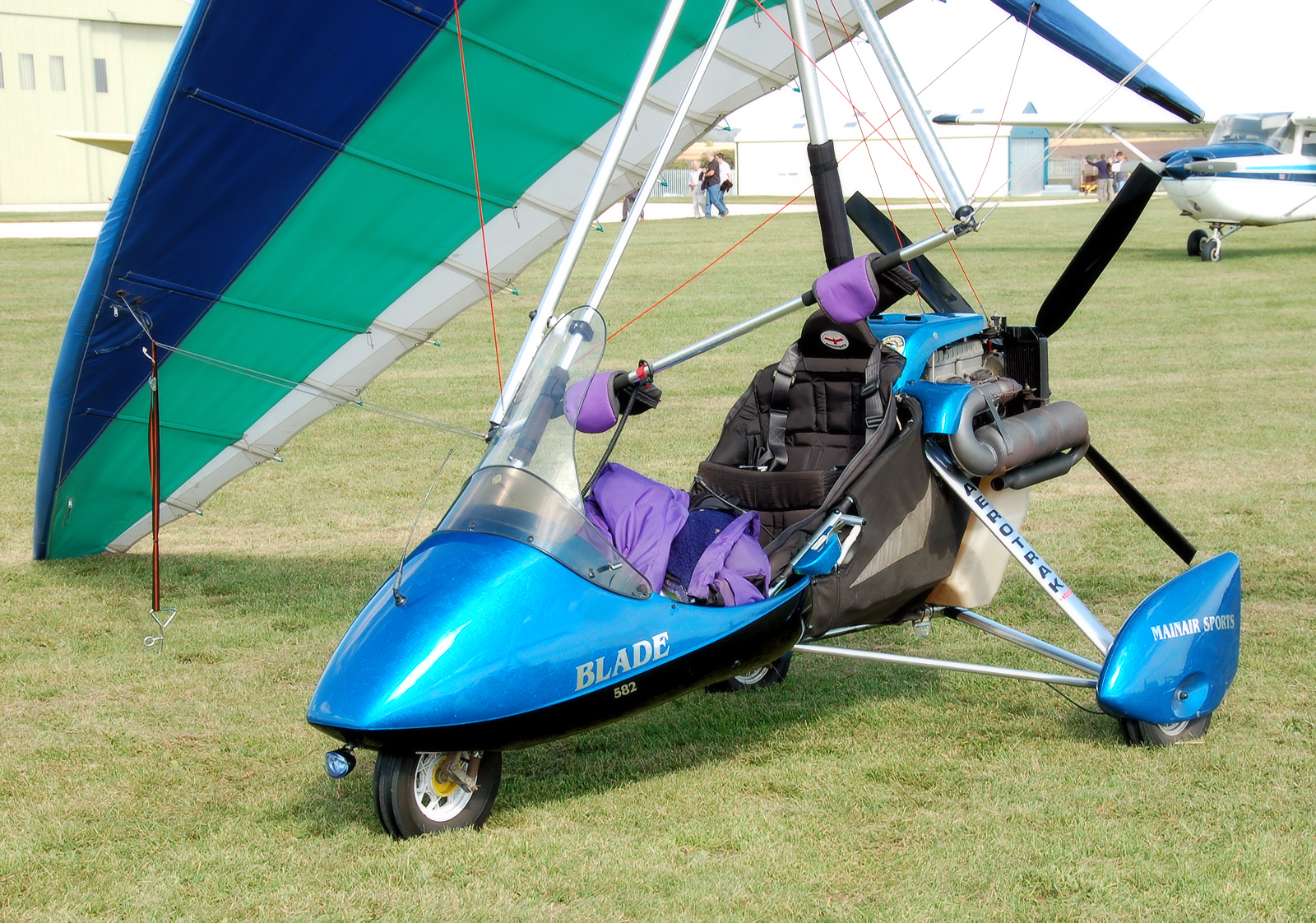 Detail of a Mainair Blade ultralight (G-MZBL), built 1996, at Kemble Battle of Britain Weekend 2009, Cotswold Airport, Gloucestershire, England. Note: this not a hang glider.